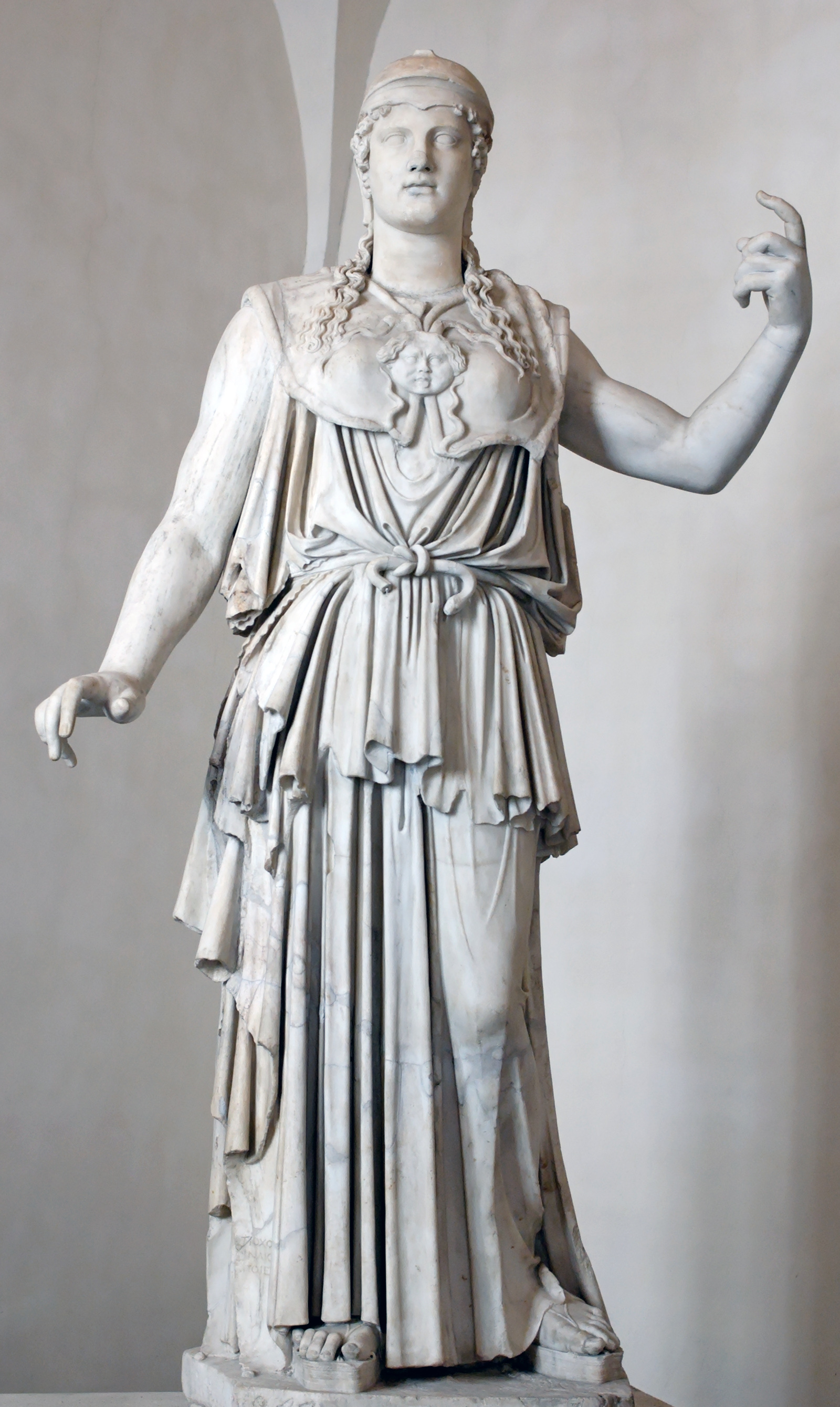 Athena of the Parthenos Athena type. Pentelic marble, Greek copy from the 1st century BC after the original from the 5th century BC. Some 17th-century restorations: arms, ends of the belt, some folds of the peplos, aegis, tip of the nose.